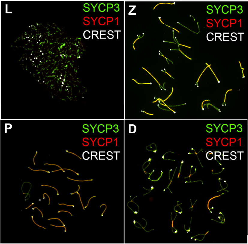 Stages of Meiosis Prophase I in mice as seen by immunoflourescence. SYCP1 & 3 mark the synaptonemal complex (on the chromosomes), CREST marks centromeres. L: Leptonema; Z: late Zygonema P: Pachynema; D: Diplonema